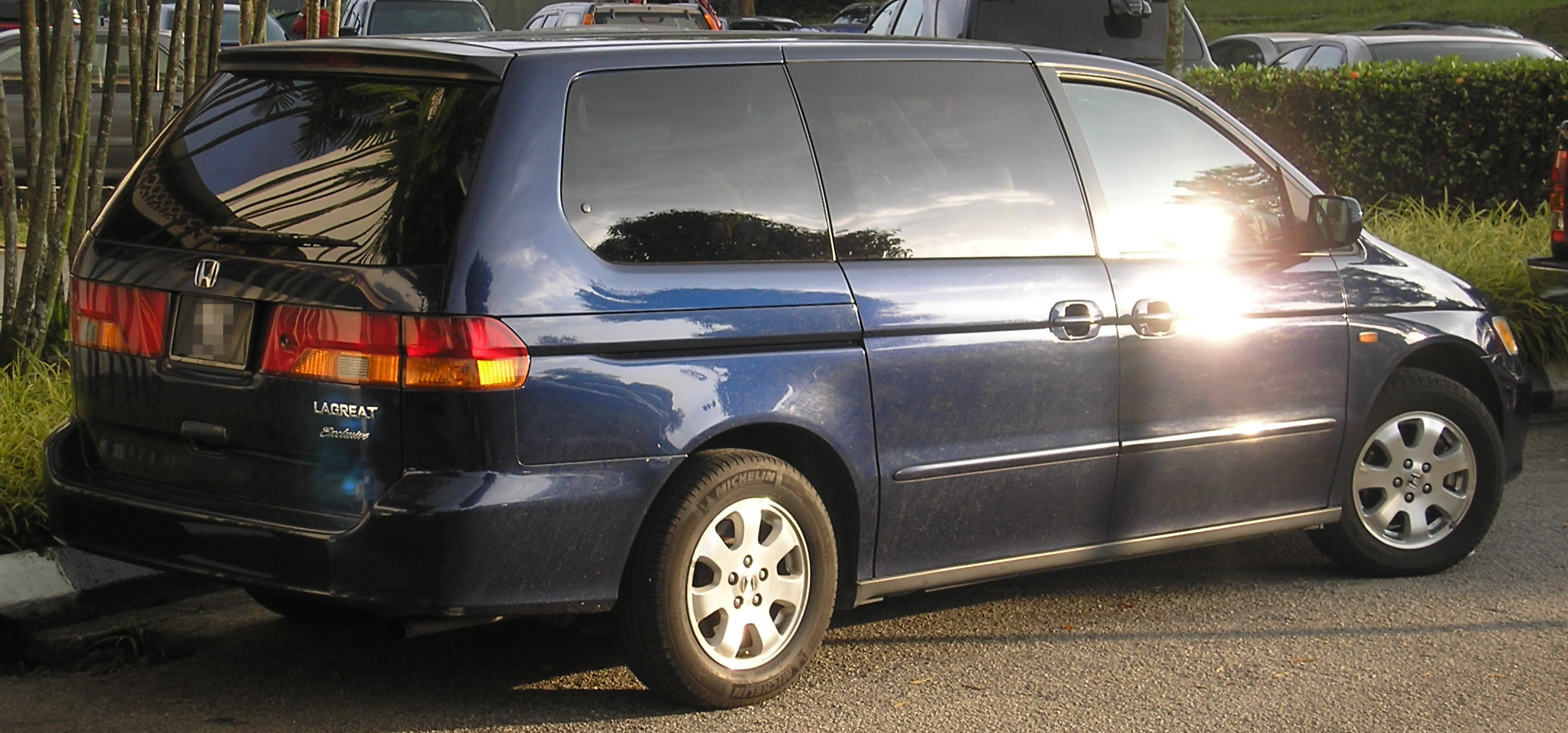 Rear quarter view of a second generation Honda Lagreat in Sungai Besi, Selangor, Malaysia. The vehicle is presumably a grey import, as the Lagreat, in turn a rebadge of the North American Honda Odyssey, is only marketed in Japan.